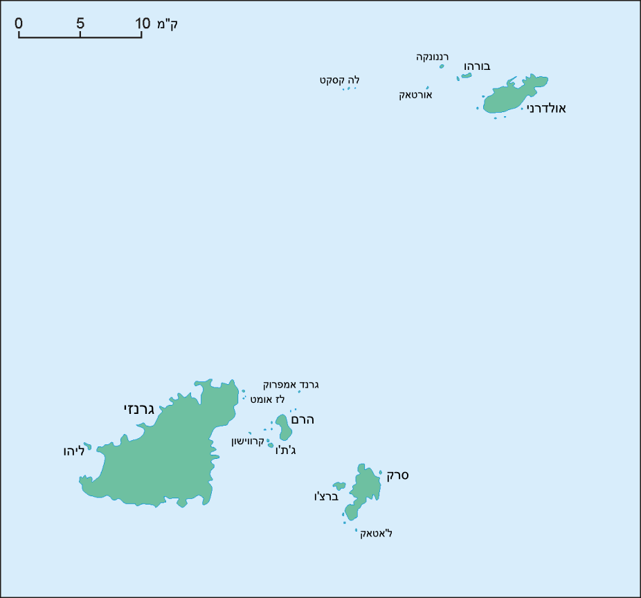 Map of islands of the Bailiwick of Guernsey